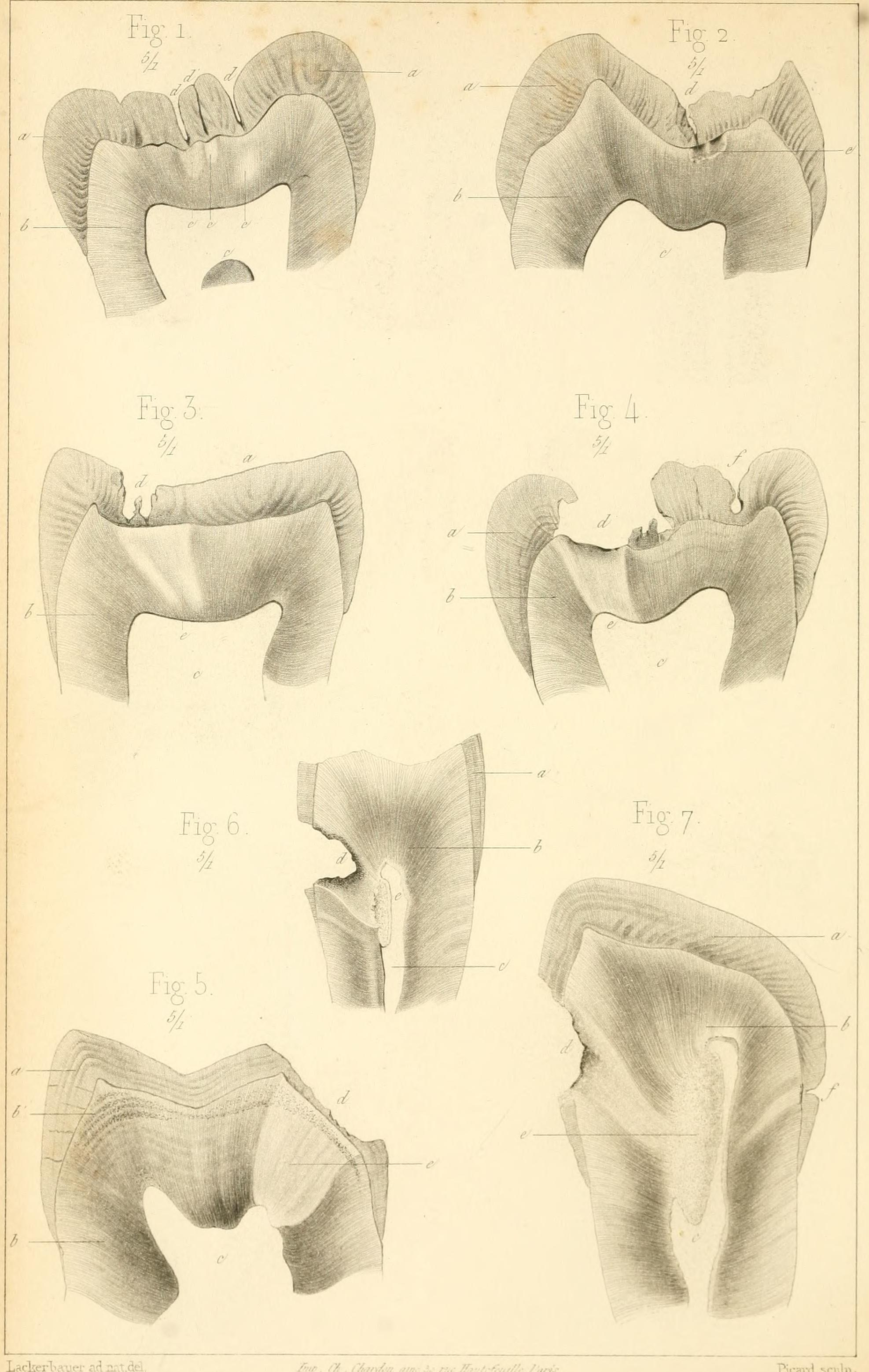 Title: Treatise on dental caries : experimental and therapeutic investigations Year: 1878 (1870s) Authors: Magitot, Émile, 1833-1897 Chandler, Thomas Henderson, d. 1895 Subjects: Teeth Tooth Diseases Dental Caries Publisher: Boston : Houghton, Osgood and Company Text Appearing Before Image: layer of the same globules less abundant.c. Third layer, the most interior of these appearances, be-yond which the preparation shows perfectly nor-mal ivory as far as the wall of the pulp cavity.Fig. 7. Vertical section of the crown of a lower first molar affectedby erosion. Magnified five diameters. a. Enamel filled with congenital furrows and pits. b. Ivory showing several superposed layers of globular dentine. c. Cavity of the pulp. d, d. Lateral caries, destroying the whole enamel, and caus-ing the formation of two cones of resistance reach-ing the pulp cavity, which shows no signs of sec-ondary dentine.Fig. 8. Contents of carious cavity. Magnified five hundred diam-eters. a, a, a. Debris of carious ivory. b, b, b. Debris of dissociated enamel prisms. c. Pavement epithelial cells of the mucous membrane ofthe mouth.d, d, d. Leucocytes. e. Mass of filiform alga; of the mouth. f. Oidium resembling that of thrush. g. Vibrios (vibrio lineoki). JOUHN. PMAT. et de PHY SIOL. P1.1 PL XVII. Text Appearing After Image: ..(AIL .101 K\ DWV! etbePITCSIOL n amii